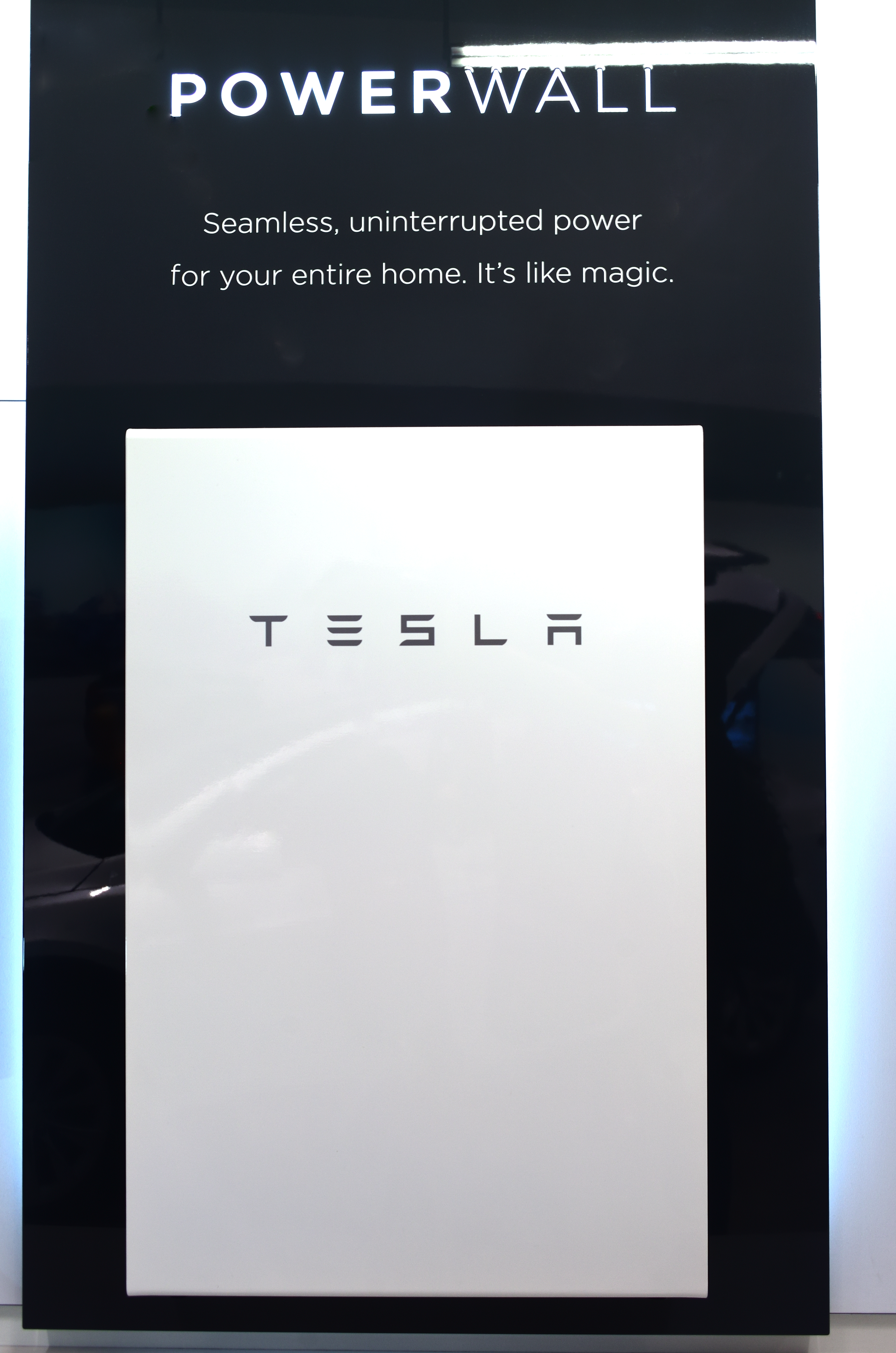 Tesla Powerwall 2